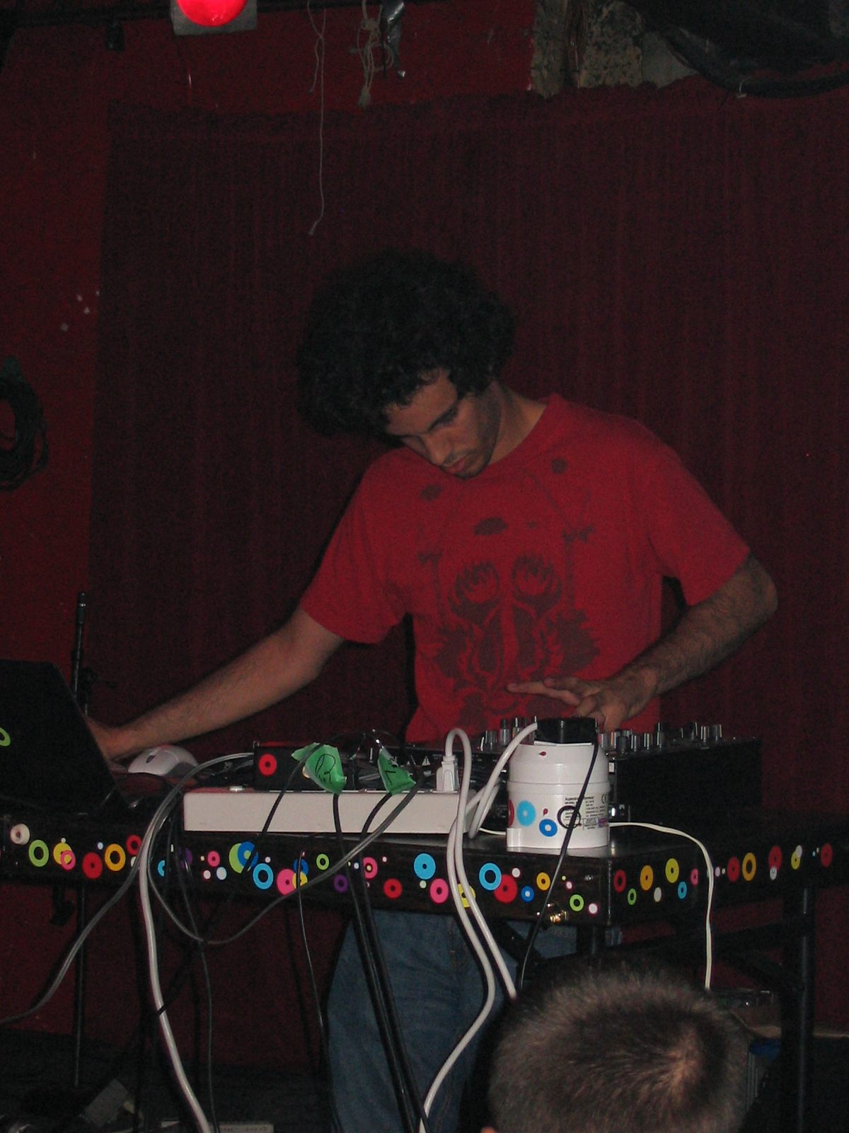 Kieran Hebden, also known as Four Tet, spins records at Cleveland, Ohio's Grog Shop (2005-09-24). Author: Mark Patrick McCartney